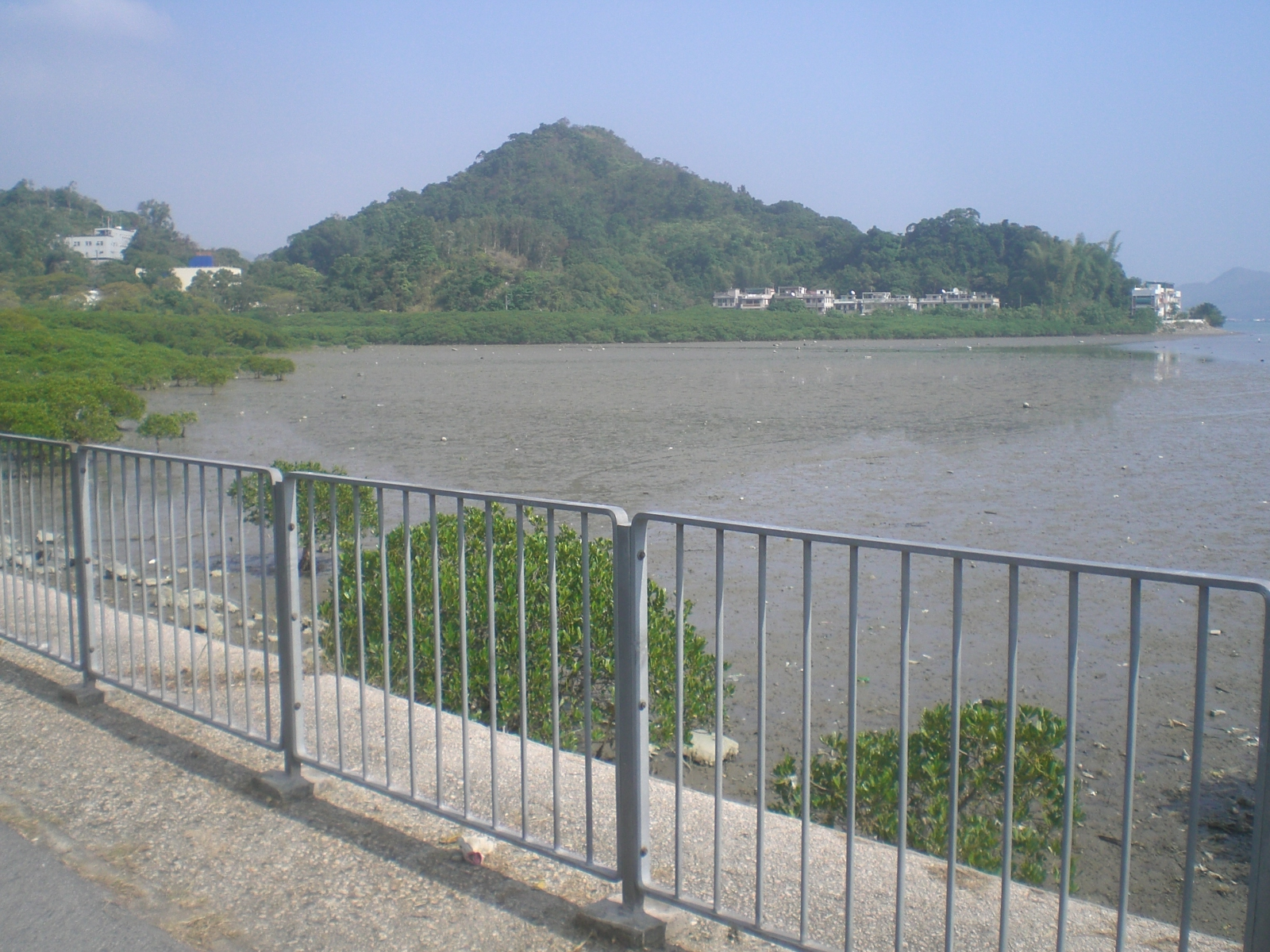 香港北區zh:鹿頸路